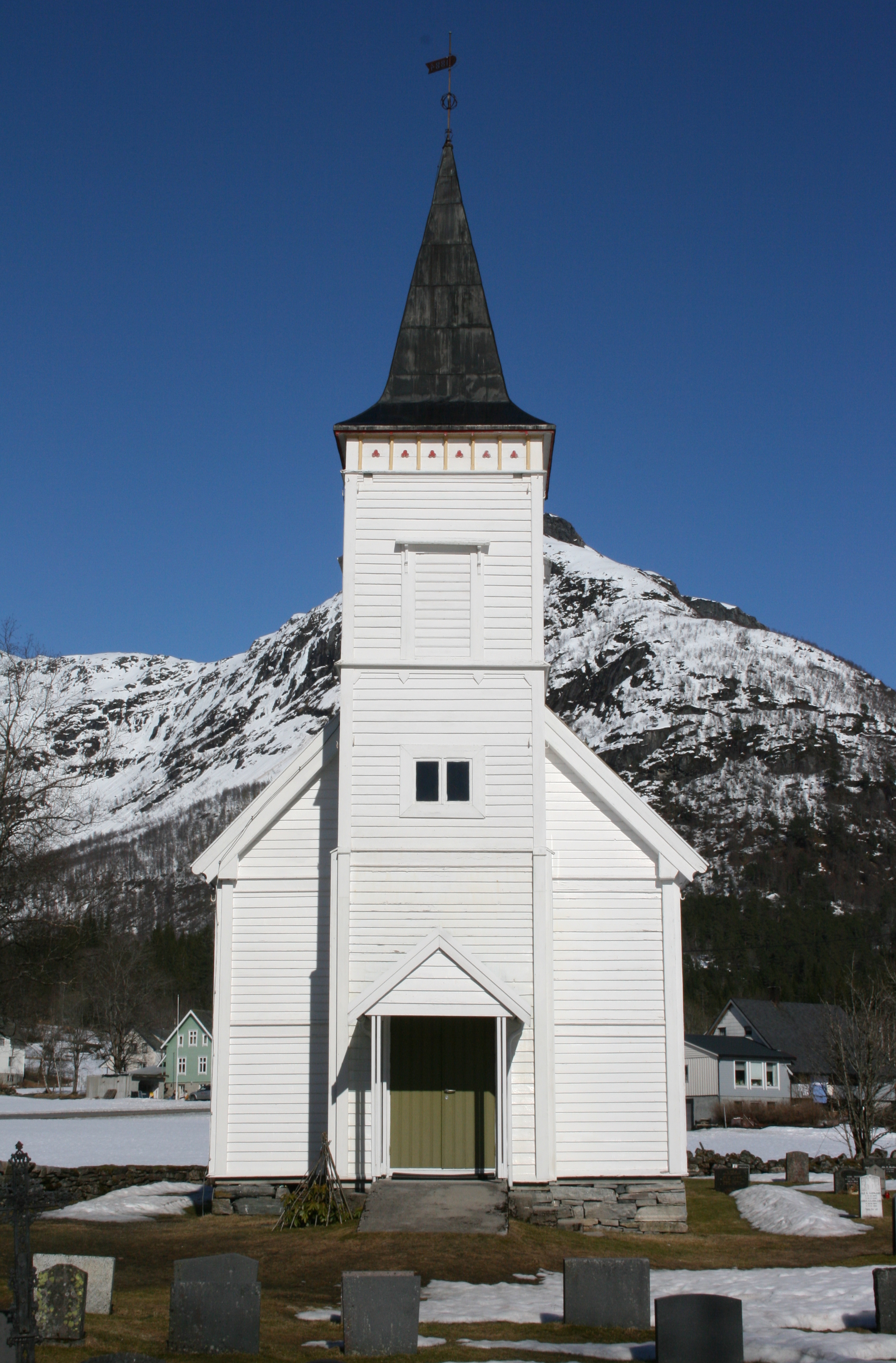 Haukedalen church in Førde kommune, Sogn og Fjordane, Norway (entrance).